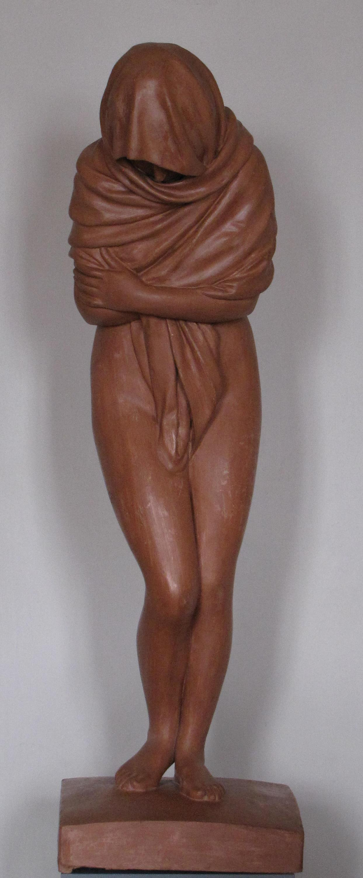 La Frileuse or Winter', copy after Jean-Antoine Houdon, made in Papier-mâché